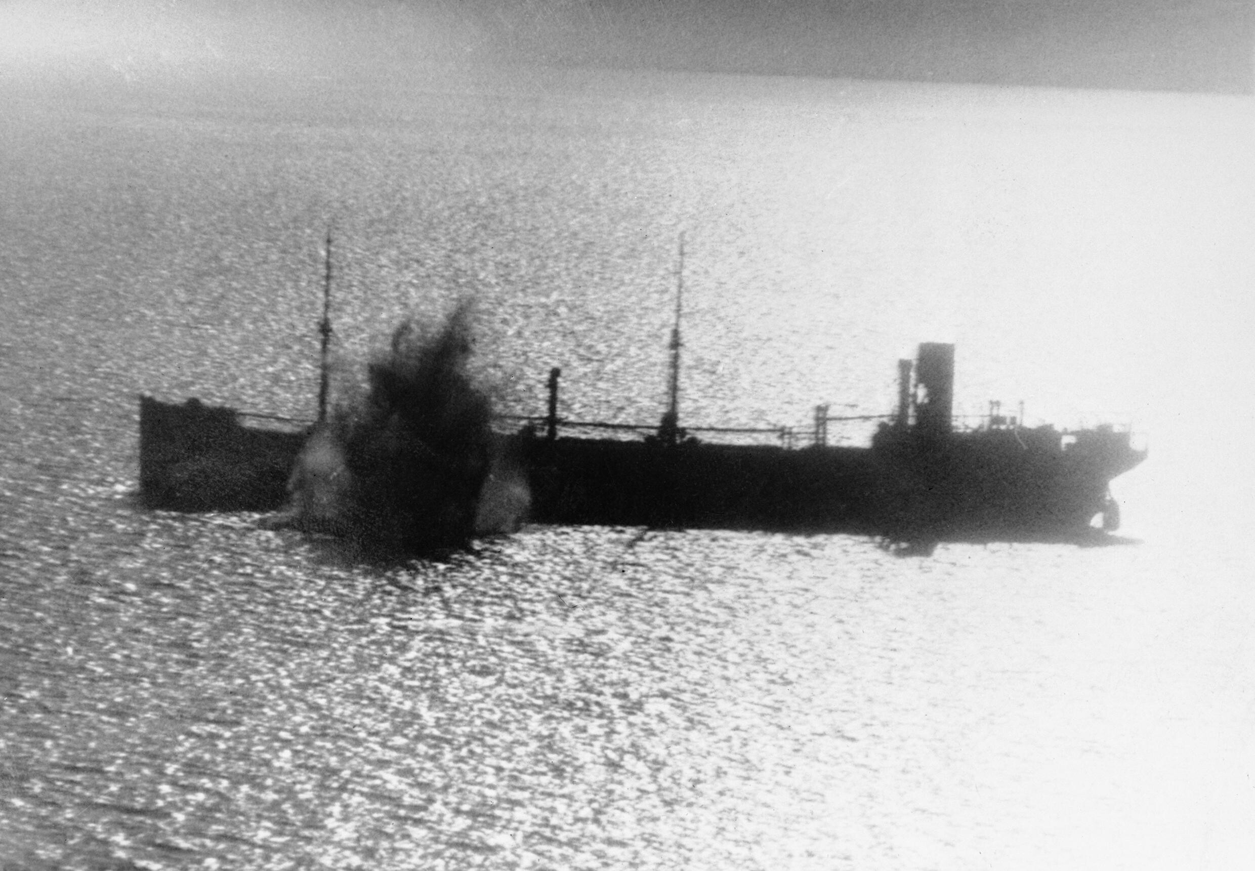 Royal Air Force Operations in Malta, Gibraltar and the Mediterranean, 1940-1945. A bomb explodes by the side of an Italian motor vessel, under attack from Bristol Blenheim Mark IVs in the Mediterranean.